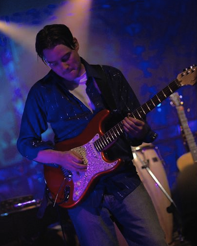 Photo of Kristofer Hill Playing guitar